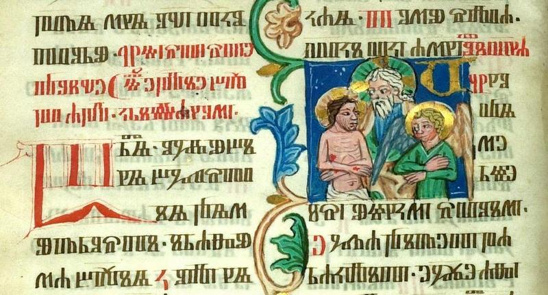 Reims gospel book